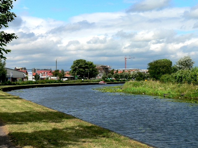 Selby Canal approaching the River Ouse in North Yorkshire